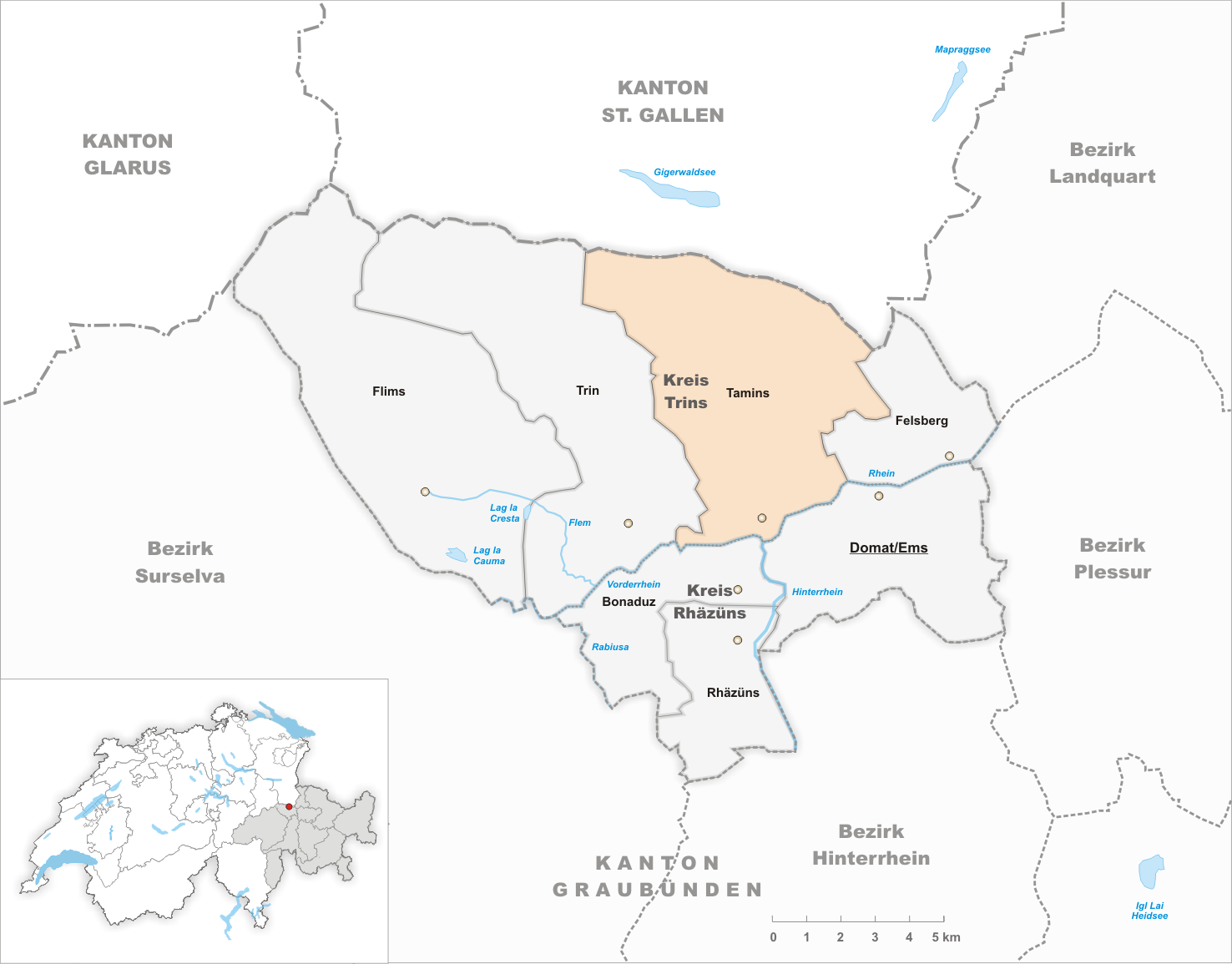 Municipality Tamins